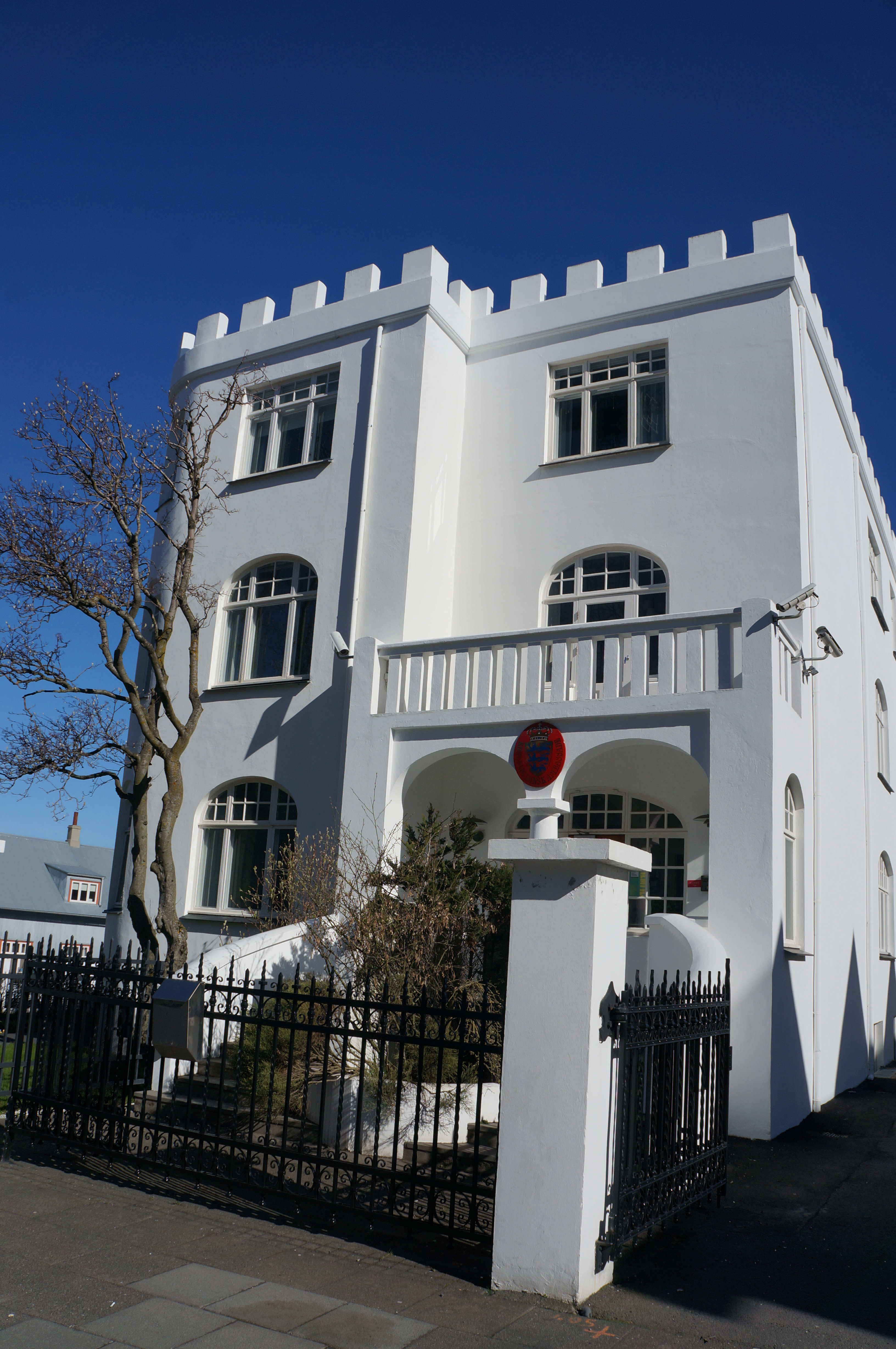 In Iceland, the Embassy of Denmark.